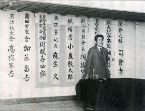 This picture is Kotora Tanahashi(1889-1973) in 1927.